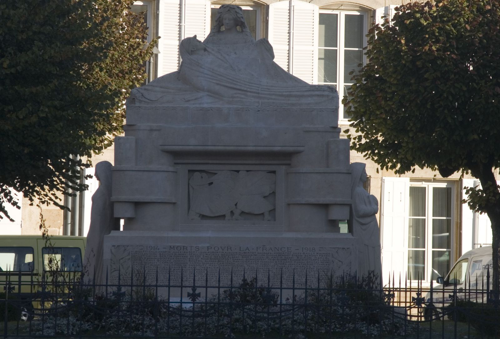 Langres - Place de Verdun - View North on WW1 Memorial